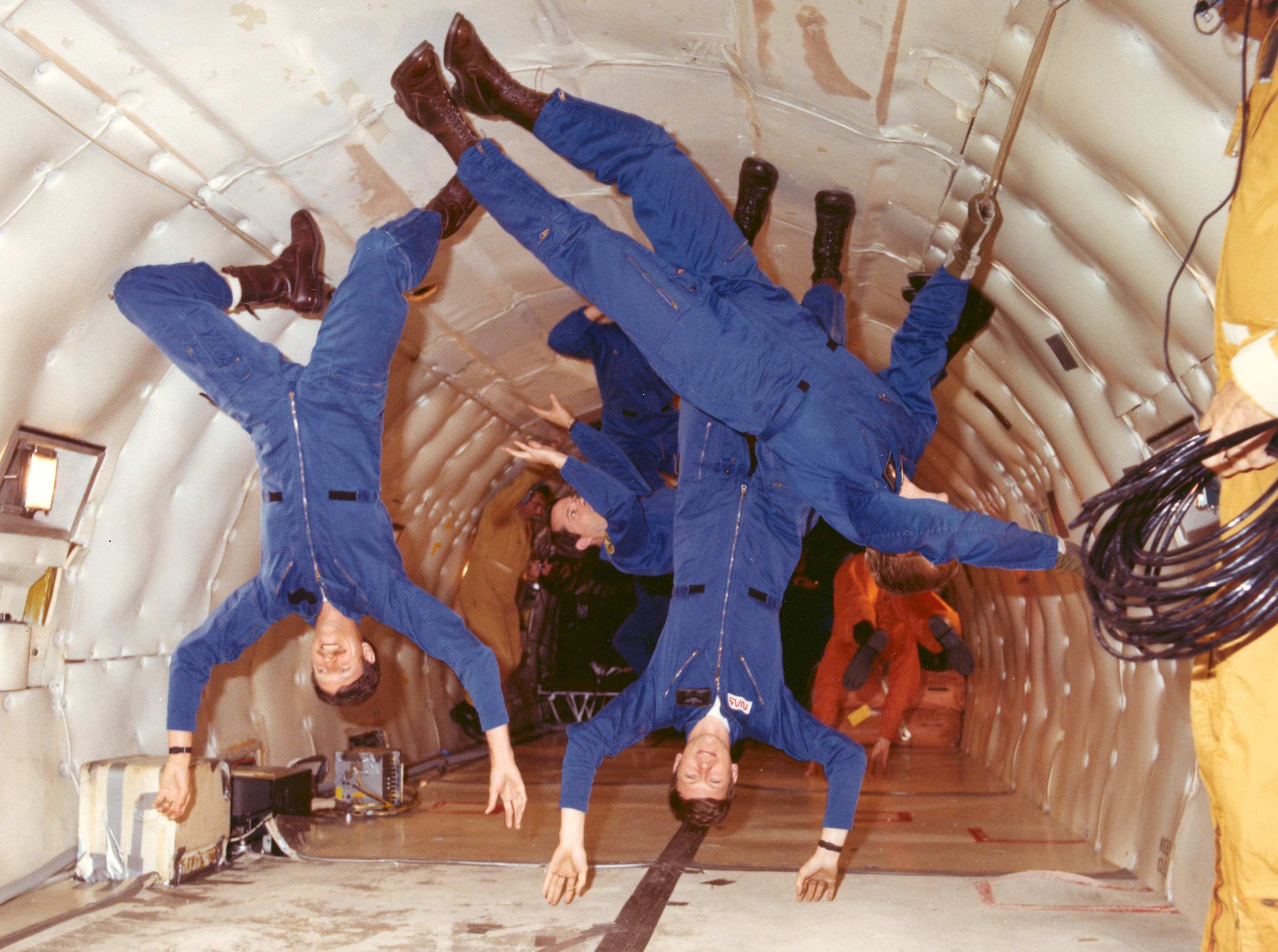 Six astronauts who had been in training at the Johnson Space Center for almost a year are getting a sample of weightlessness. They are onboard the NASA KC-135 that uses a special parabolic pattern to create brief periods of microgravity, affording astronauts and astronaut candidates a preview of spaceflight. These flights are nicknamed the "vomit comet" because of the nausea that is often induced. The photo should be viewed with feet at the top. The three astronauts in the foreground are (left to right): Richard O. Covey, Steven R. Nagal and George D. Nelson. In the center background is Robert L. Stewart. Obscured in the background are Norman E. Thagard and Ellison S. Onizuka.